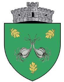 Coat of arms of Copălău commune, Botoșani County, Romania